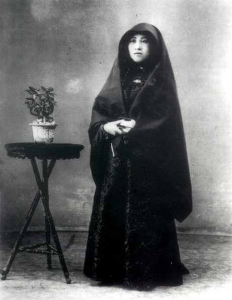 Macanese senhora clad in her most traditional attire, the dó.